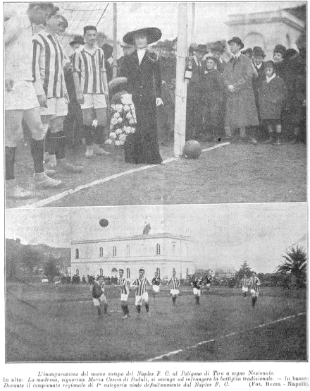 Naples FBC in 1913.